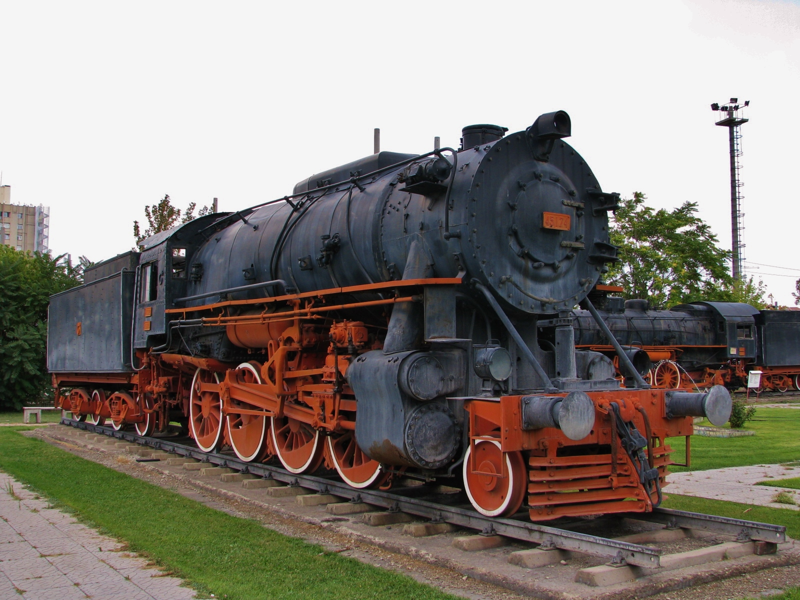 Steam locomotive no. 45174 at Open-Air Steam Locomotive Museum in Ankara